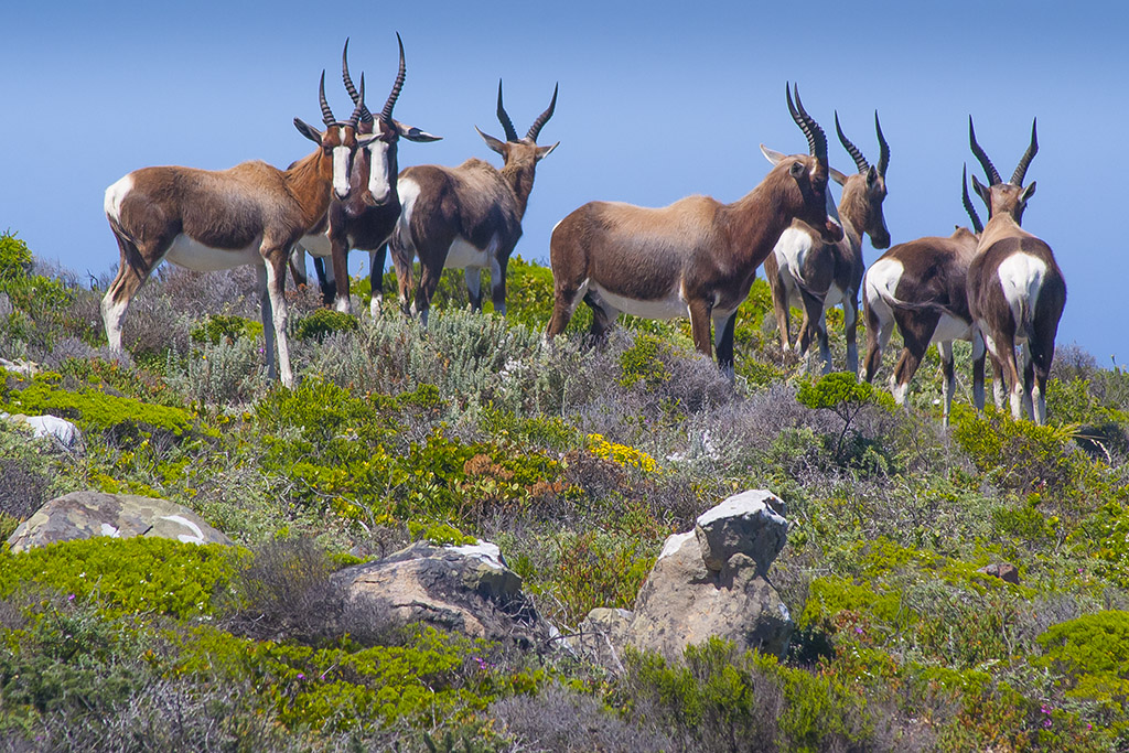 Endangered Bontebok (Damaliscus pygargus pygarus), in the flowering Fynbos, its natural habitat. Cape Peninsula National Park, Western Cape South Africa.